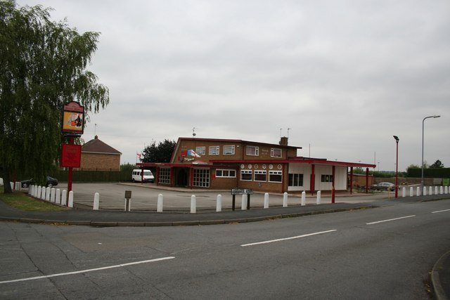 The Danish Invader. Suburban pub on Empingham Road, Stamford